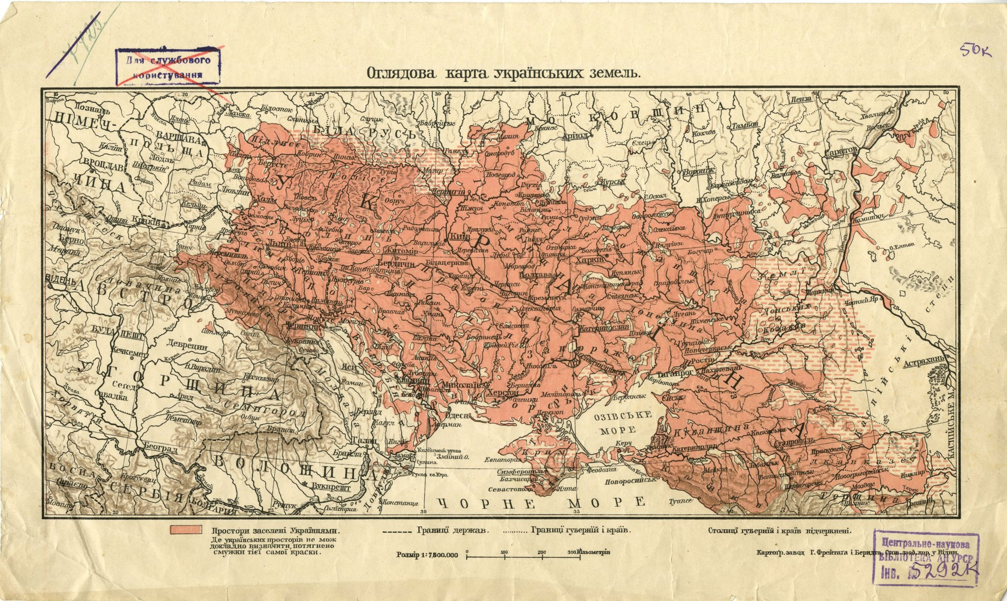 "Overview map of Ukrainian lands" ("Оглядова карта українських земель") by Stepan Rudnytsky published in Vienna in 1915.